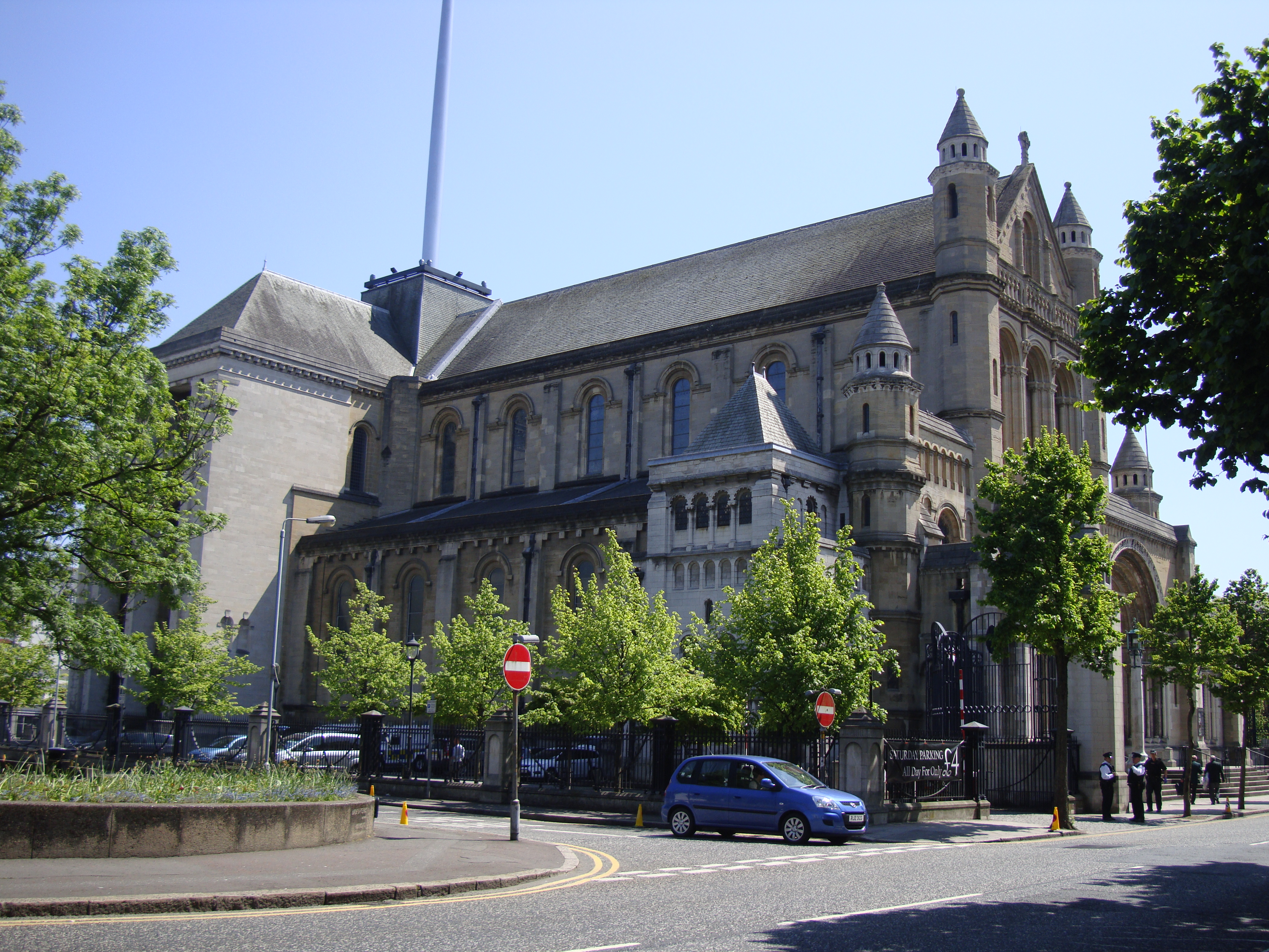 Photograph of St Anne's Cathedral, Belfast, Northern Ireland